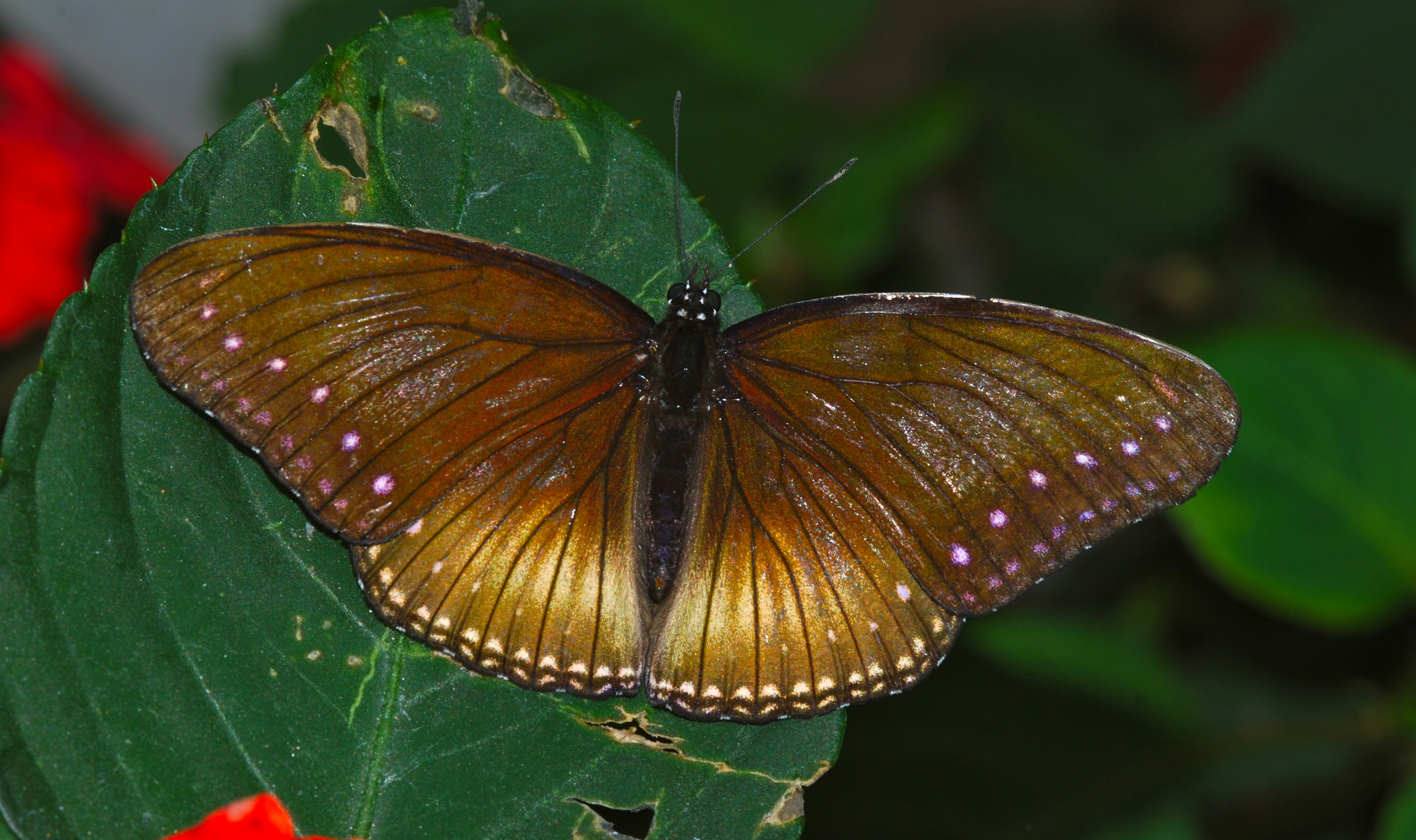 Butterfly Garden, Brinchang, Cameron Highlands, Pahang, MALAYSIA